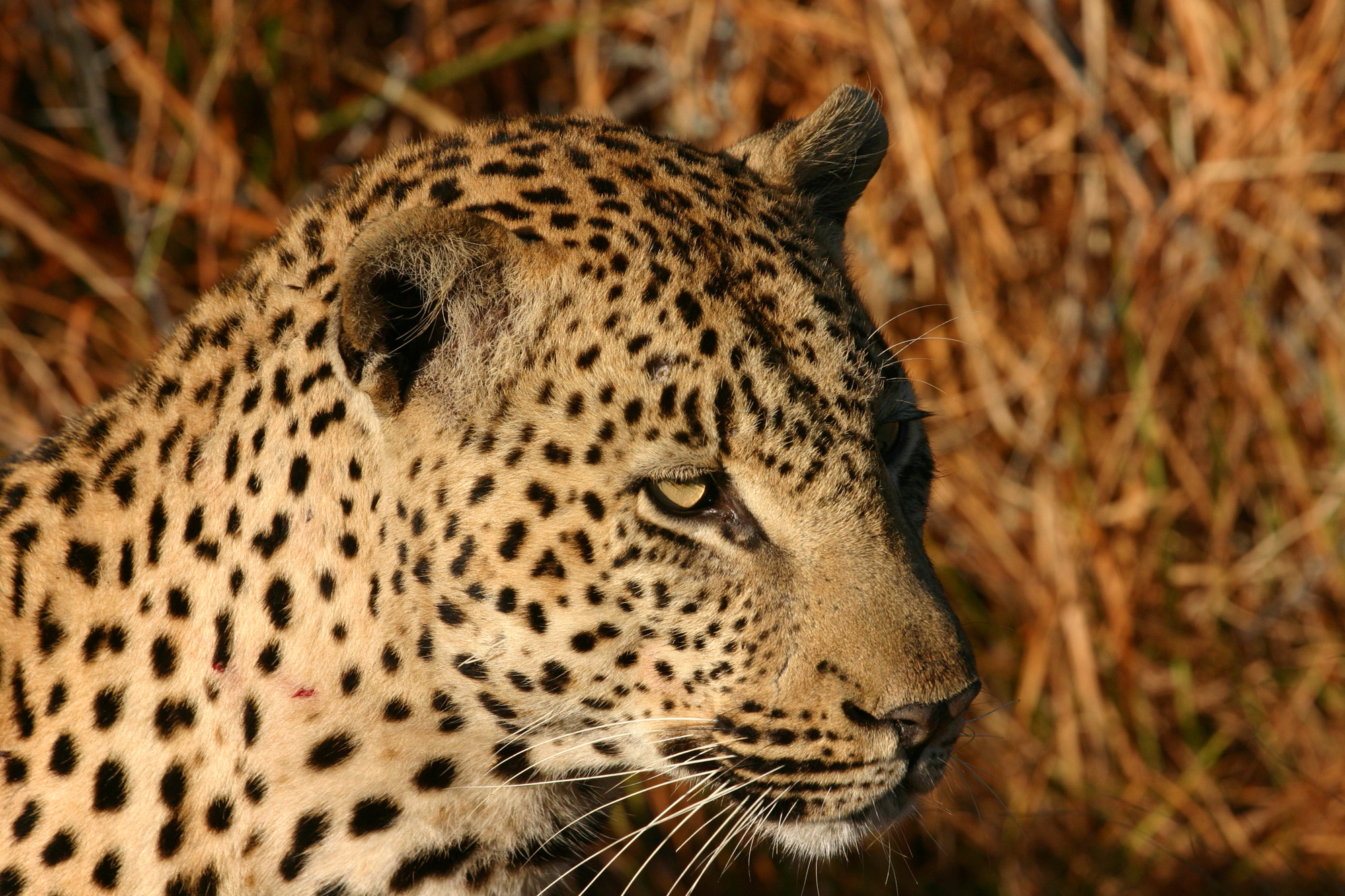 African Leopard (Panthera pardus) in Northern Sabi Sand, South Africa.